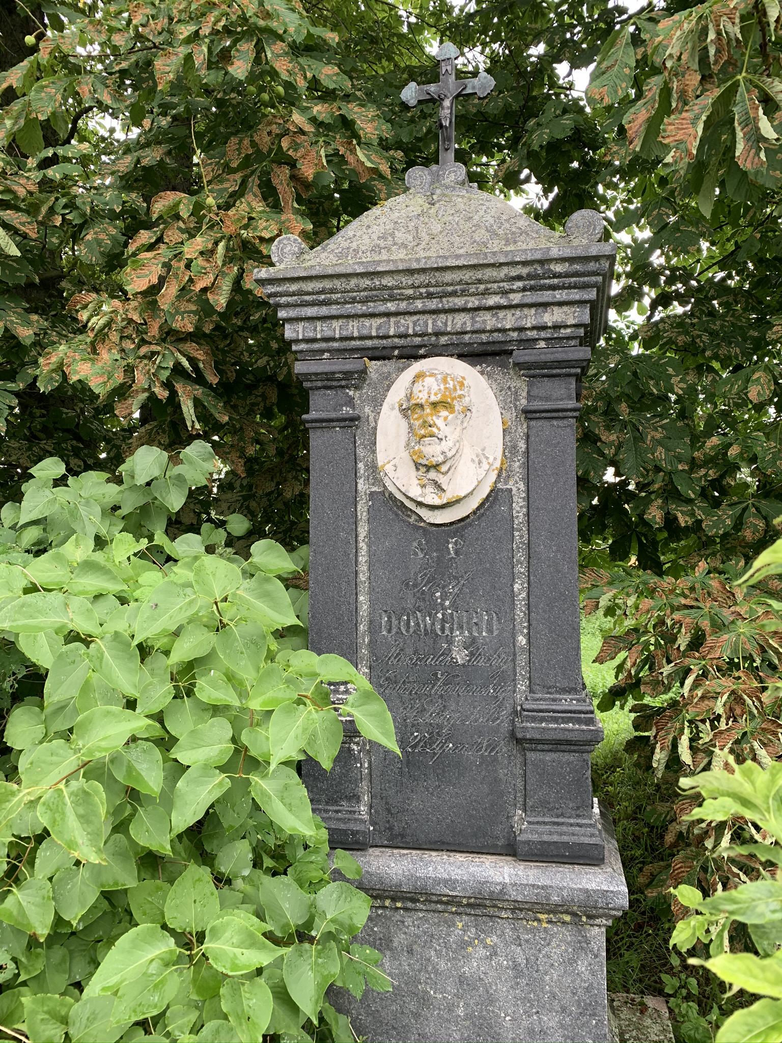 Monument on the grave of Juozapas Daugirdas (1803-1871) in cemetery Paliepiukų kapinės, village of Paliepiai, Raseiniai district, Lithuania.